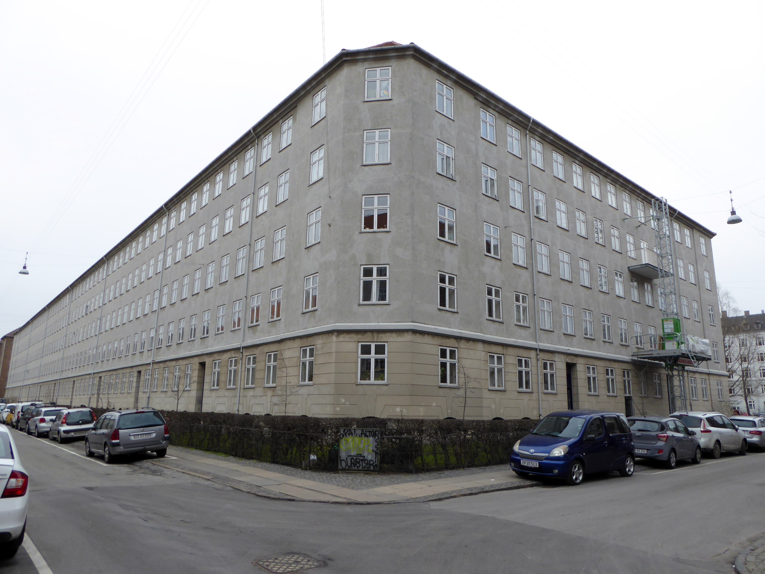 Building at the corner of Humlebækgade and Gilbjerggade in Nørrebro in Copenhagen.